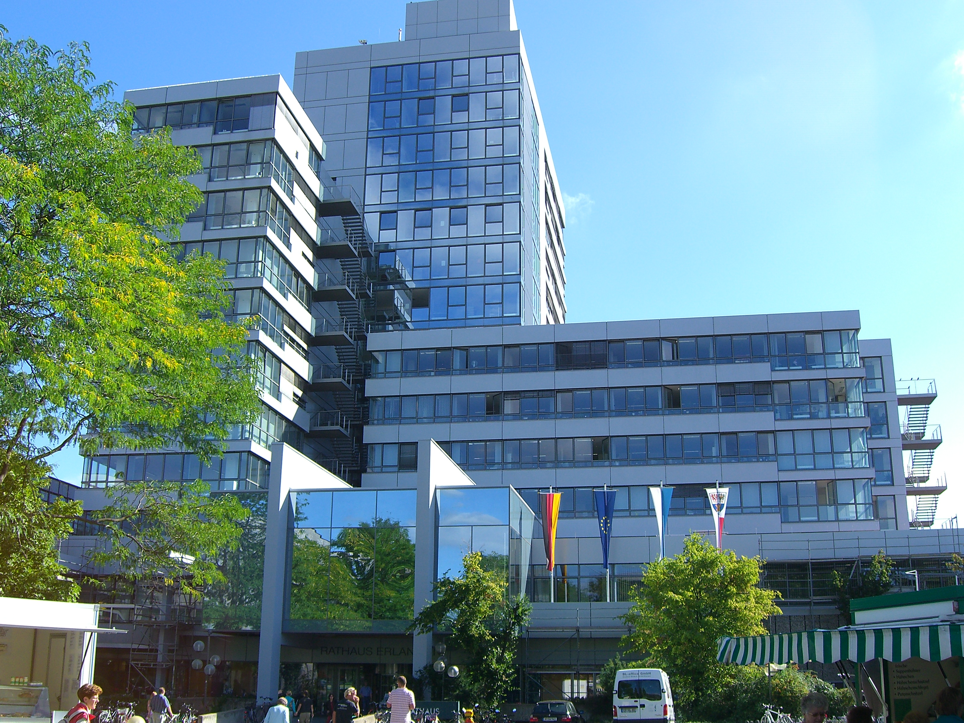 The town hall of Erlangen, Germany after modification in 2006.